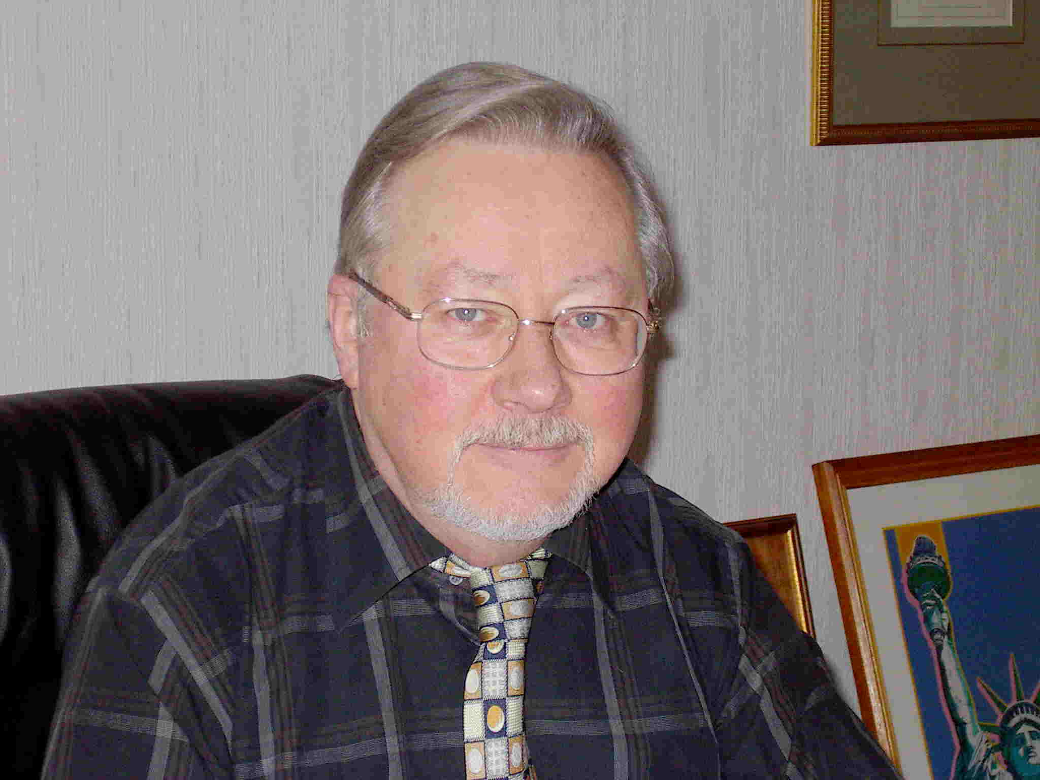 Vytautas Landsbergis - leader of Lithuanian independence movement Sajudis in 1987-1990